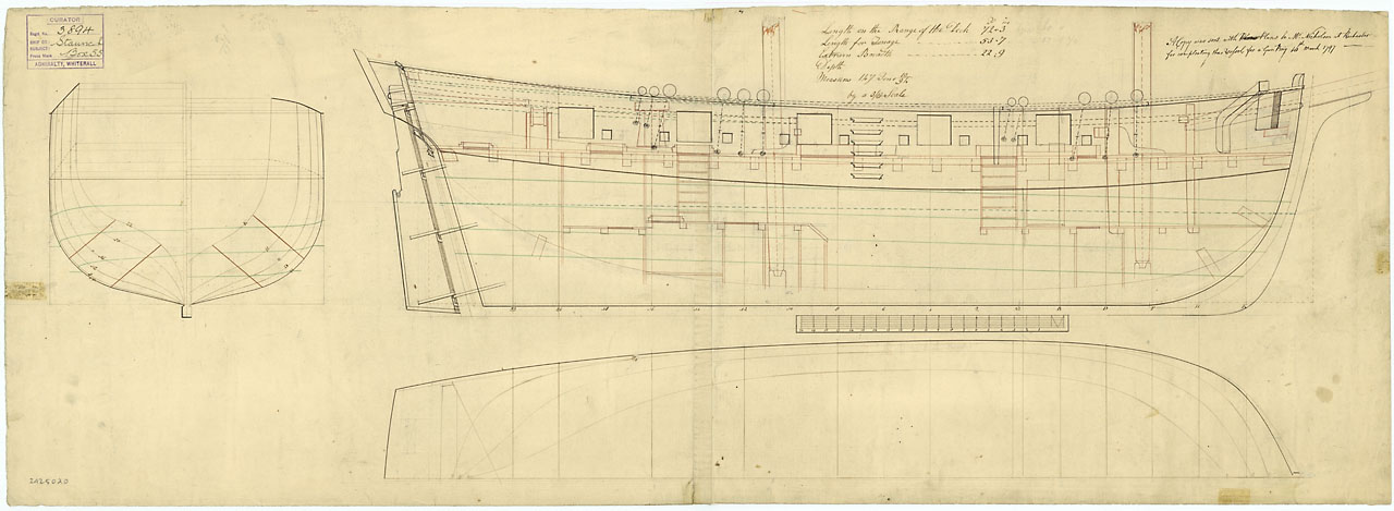 STAUNCH 1797 lines & profile